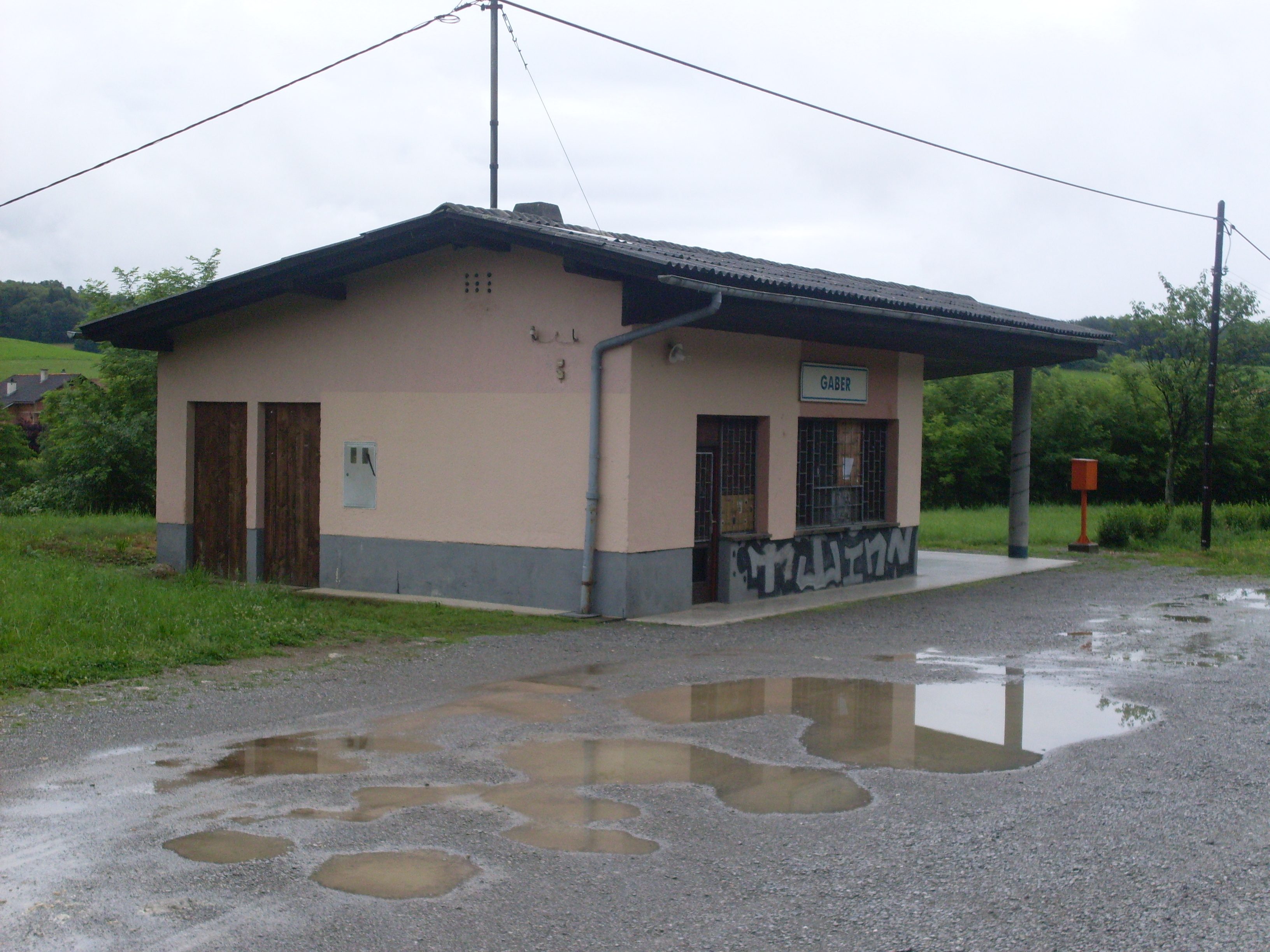 Railway halt Gaber, located in Veliki Gaber